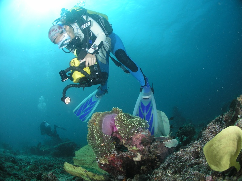 Papua New Guinea,by Ken